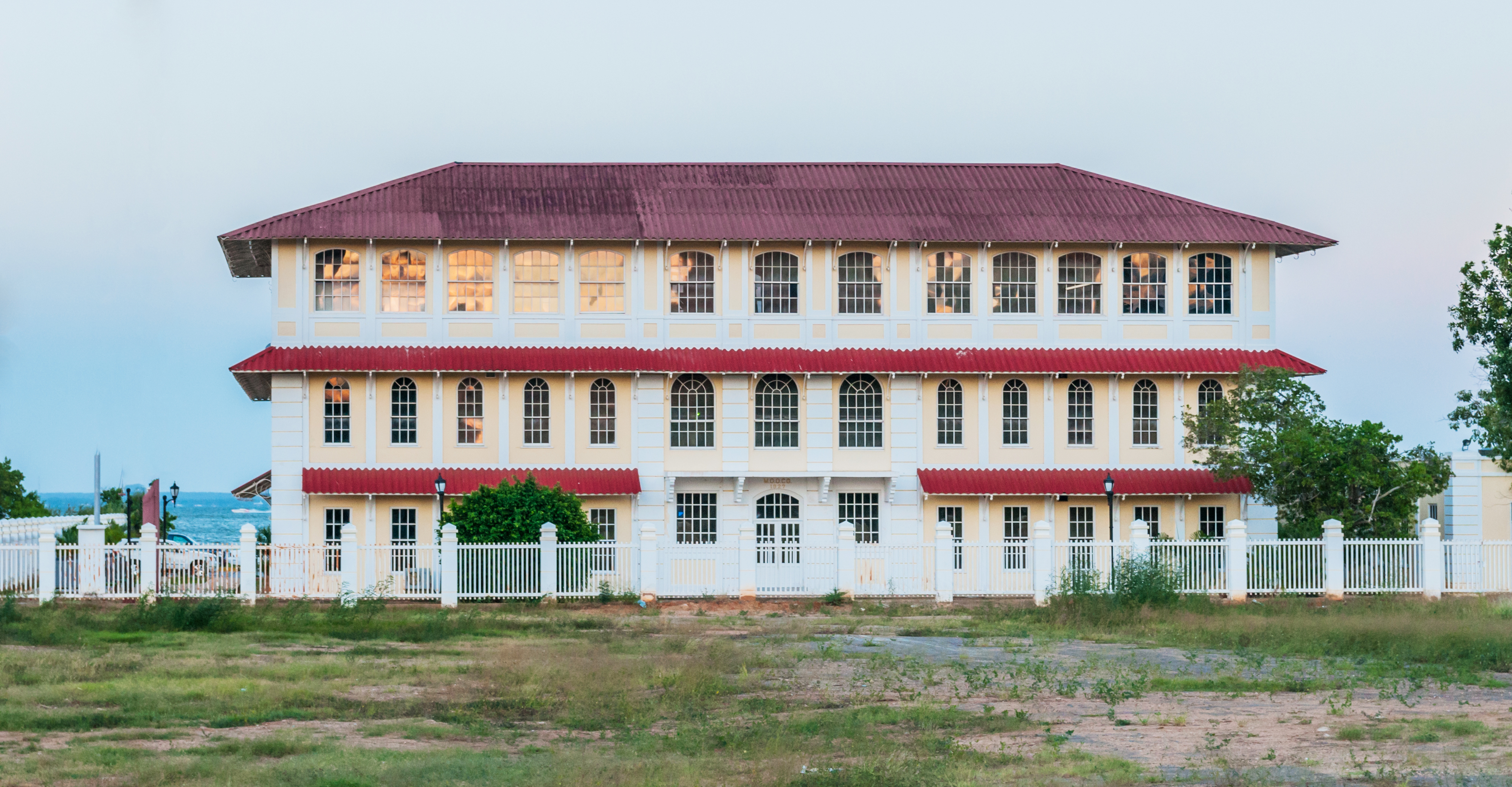 Headquarters Mene Grande Oil Company built in 1951. From 1968 to 1975 School Gonzaga, Today Carbozulia headquarters